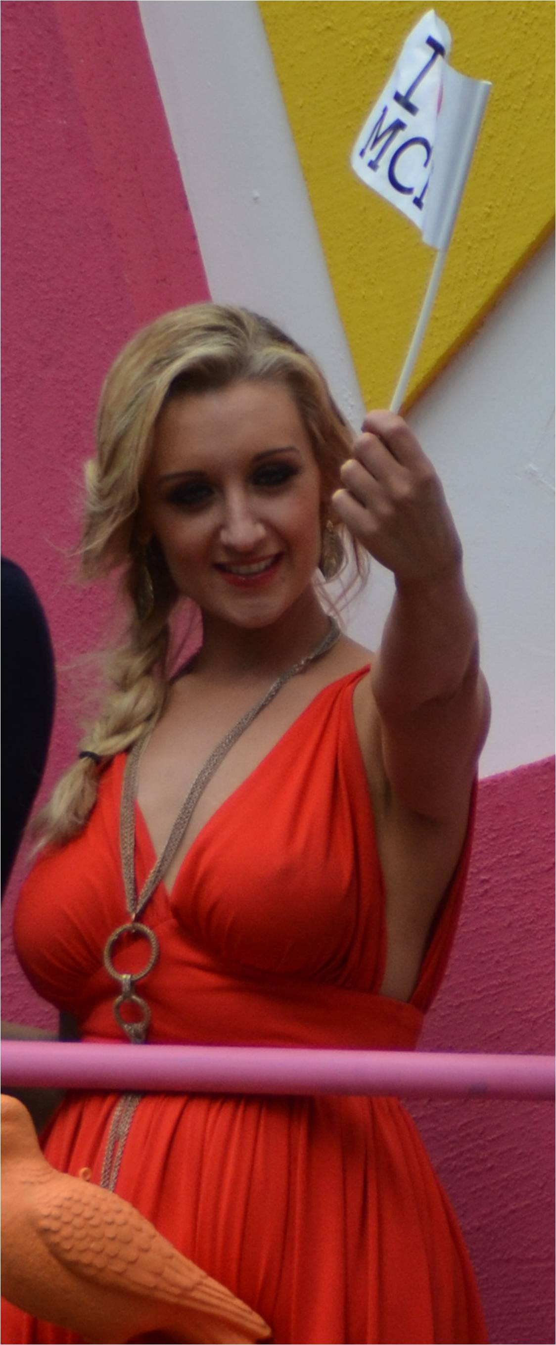 Catherine Tyldesley at Manchester Pride 2011 on the Coronation Street float